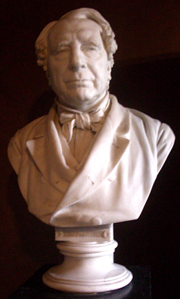 Rudolf von Jhering, bust by Carl Ferdinand Hartzer (1838-1906), 1888. Aula der Universität Göttingen, Wilhelmsplatz, Göttingen, Germany.